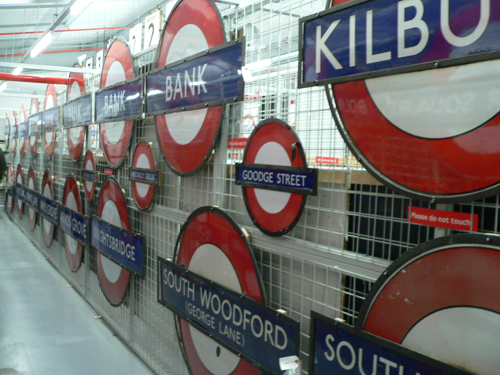 Various London Underground station name signs preserved at London's Transport Museum.